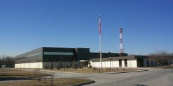 United States Department of Transportation Federal Aviation Administration Anchorage Air Route Traffic Control Center